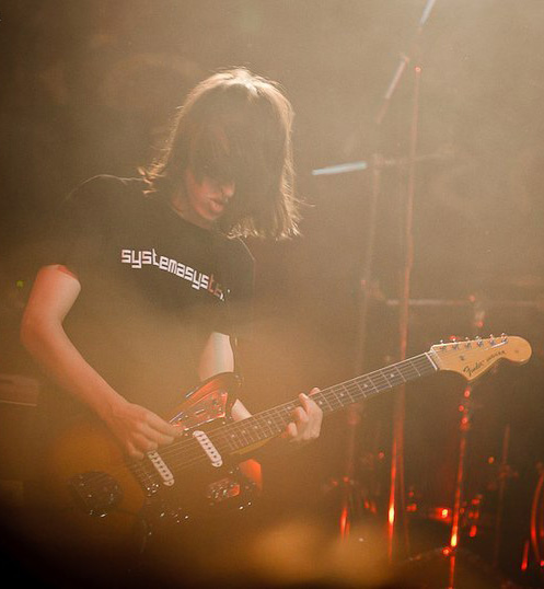 Andrey Savin